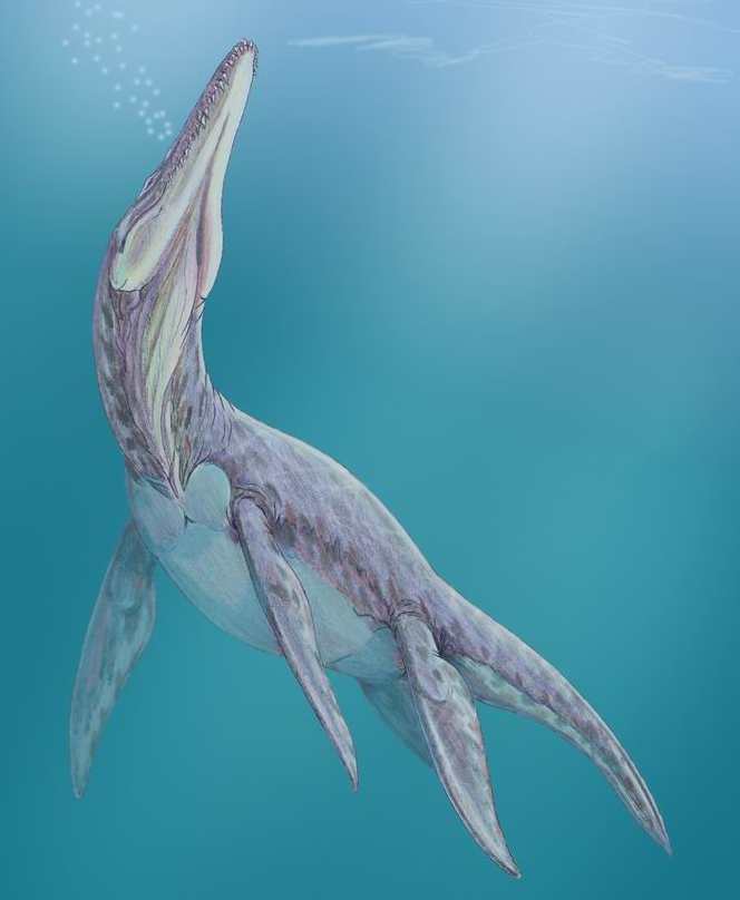 Crop of file in filename